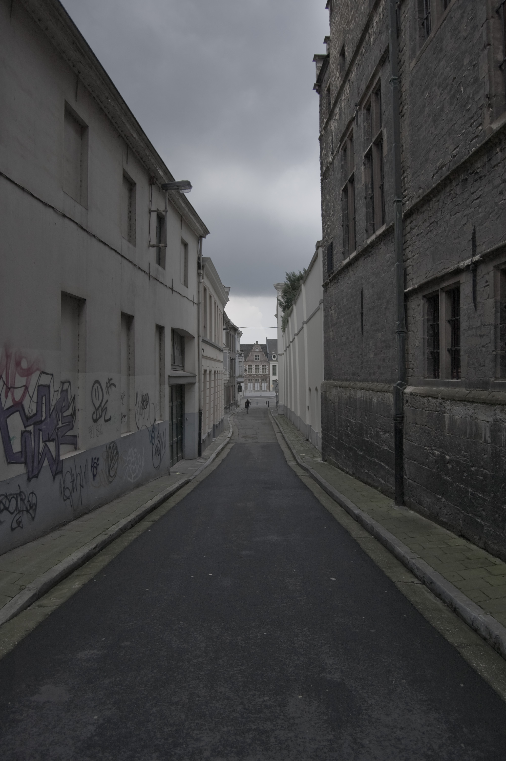 One of Ghent's many alleys.